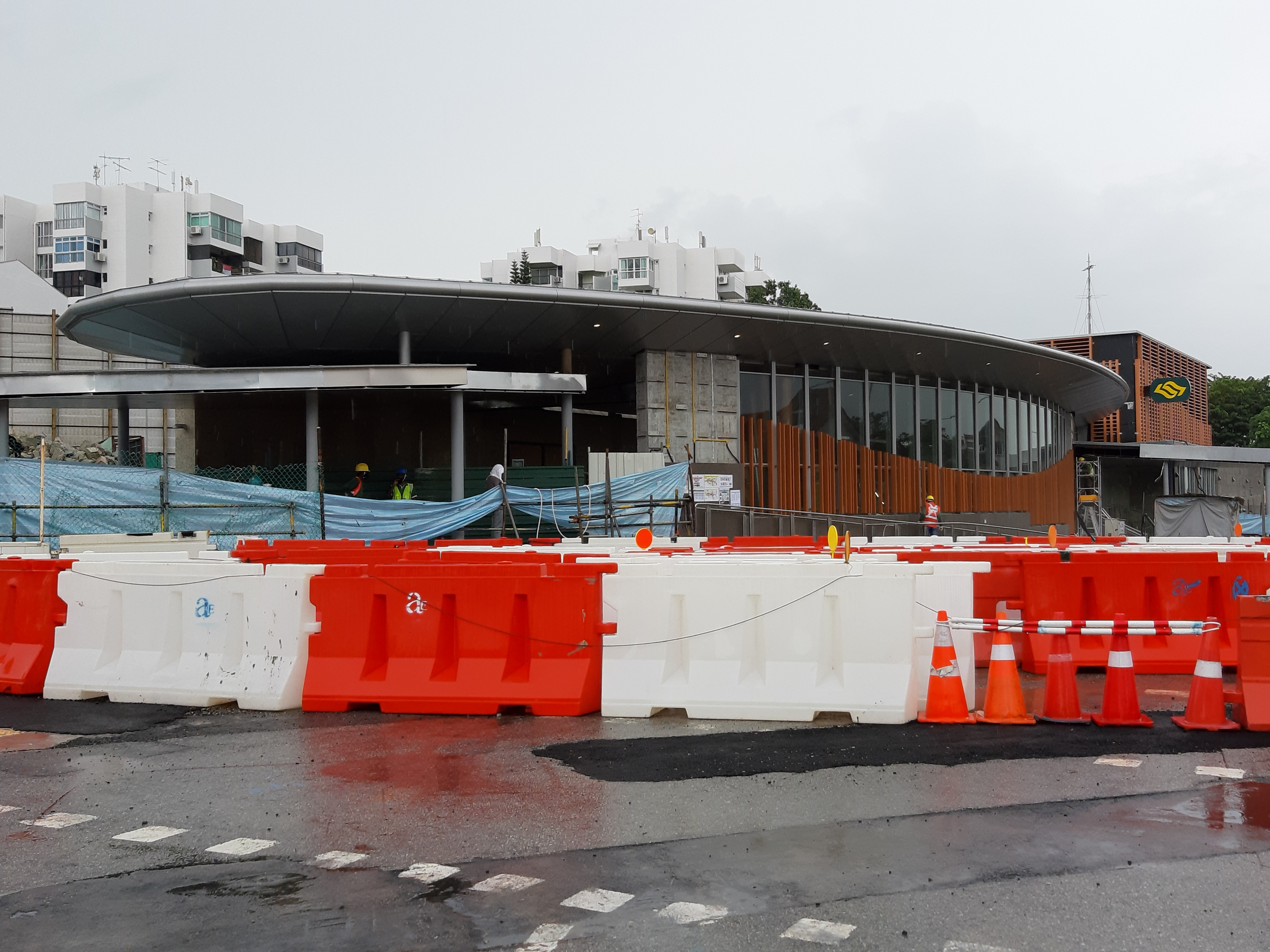 Thomson-East Coast Line's Lentor MRT, an exit under construction in July 2020